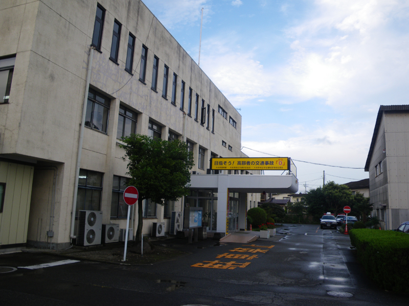 Ōtawara Police station. Ōtawara, Tochigi, Japan.